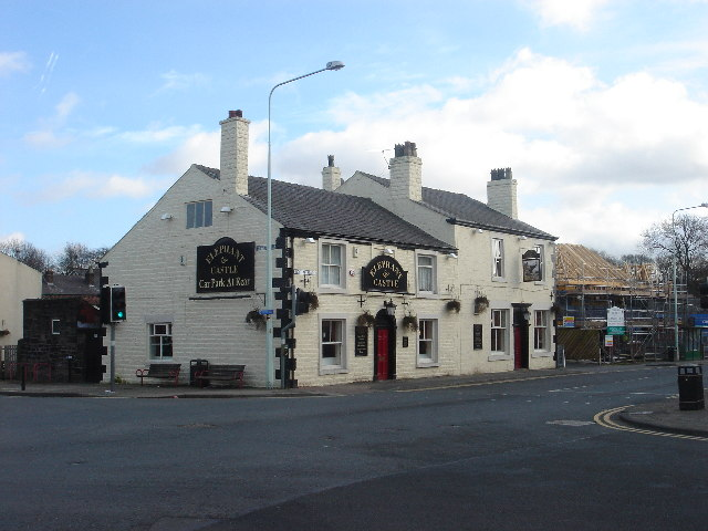 Elephant and Castle, Adlington. Pub on the corner of Bolton Road and Babylon Lane.